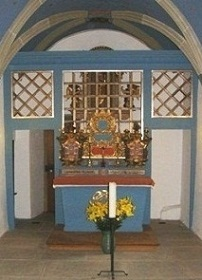 Muri - Loreto chapel - altar